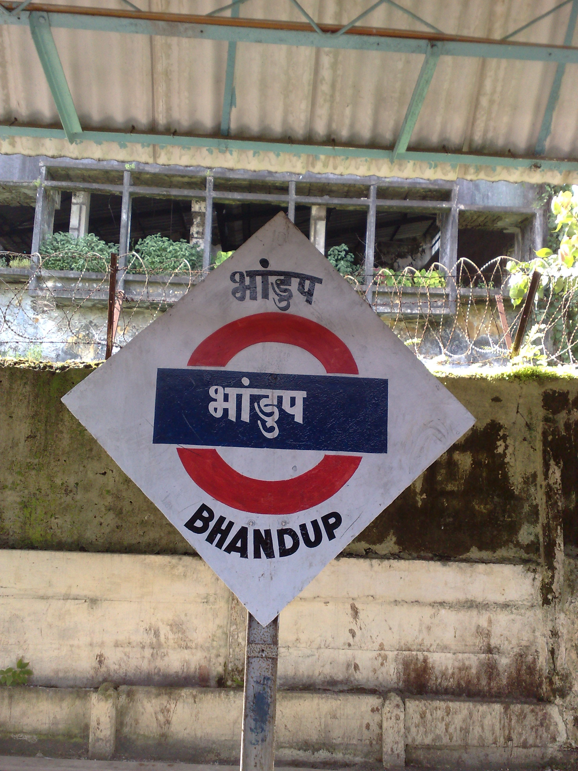 Bhandup platformboard